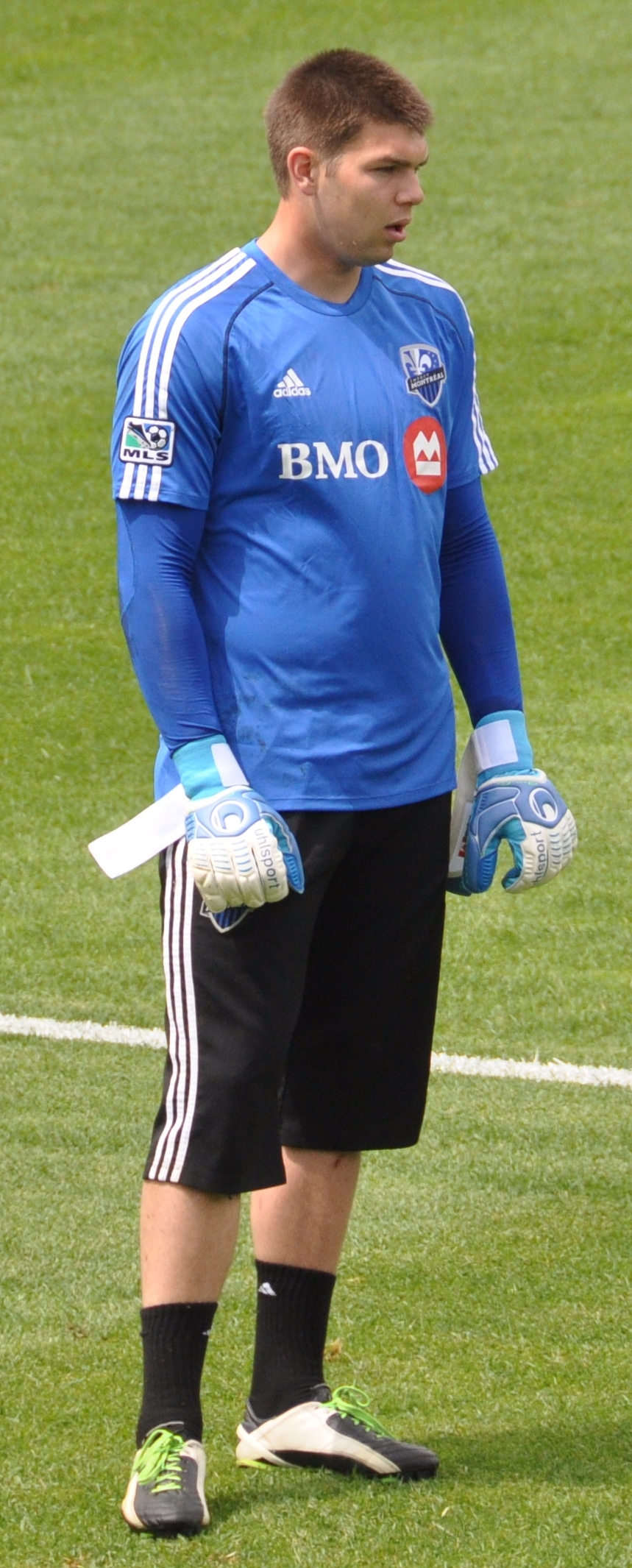 Maxime Crepeau, Canadian international goalkeeper